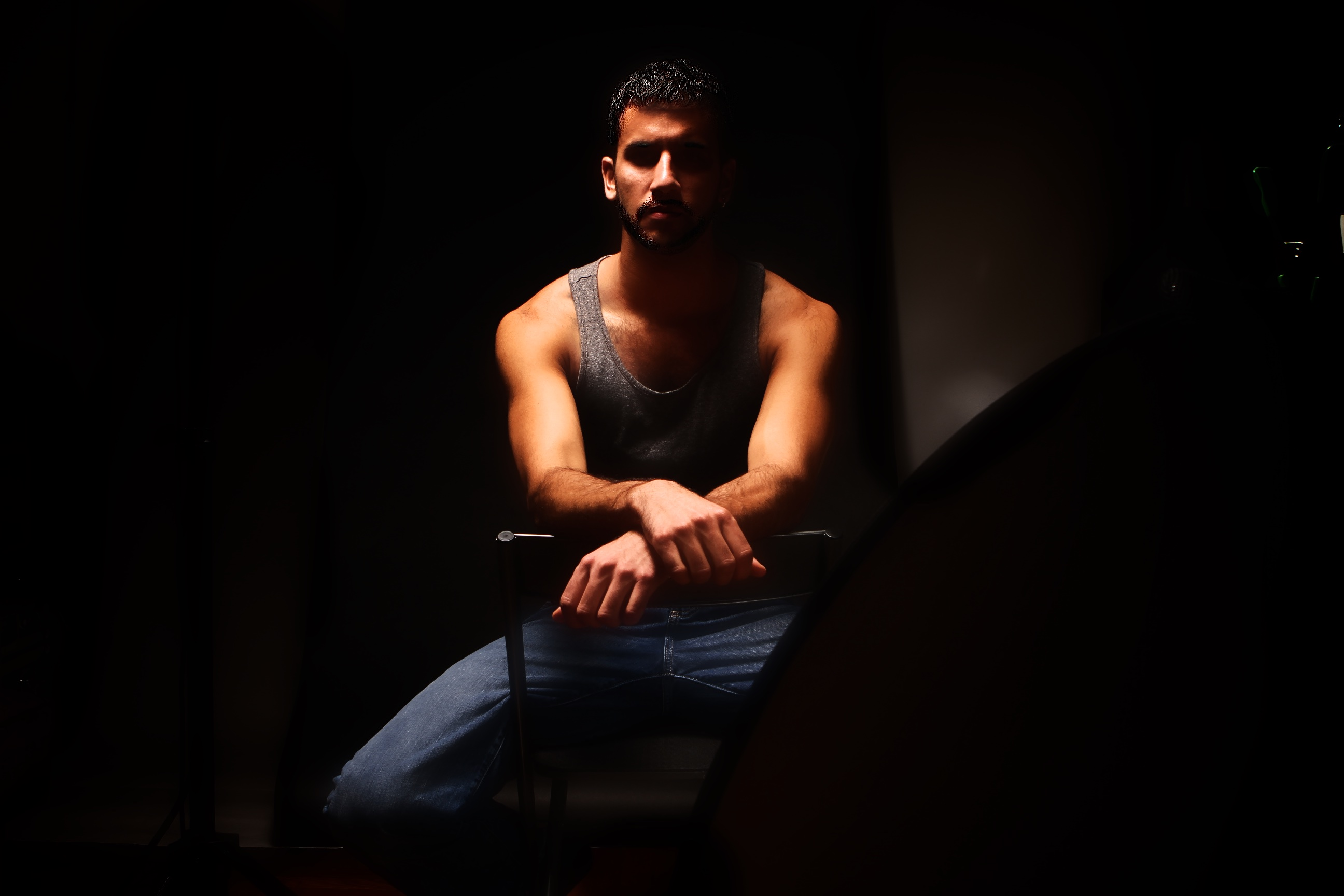 Naren Weiss at a photoshoot in Manhattan in 2016